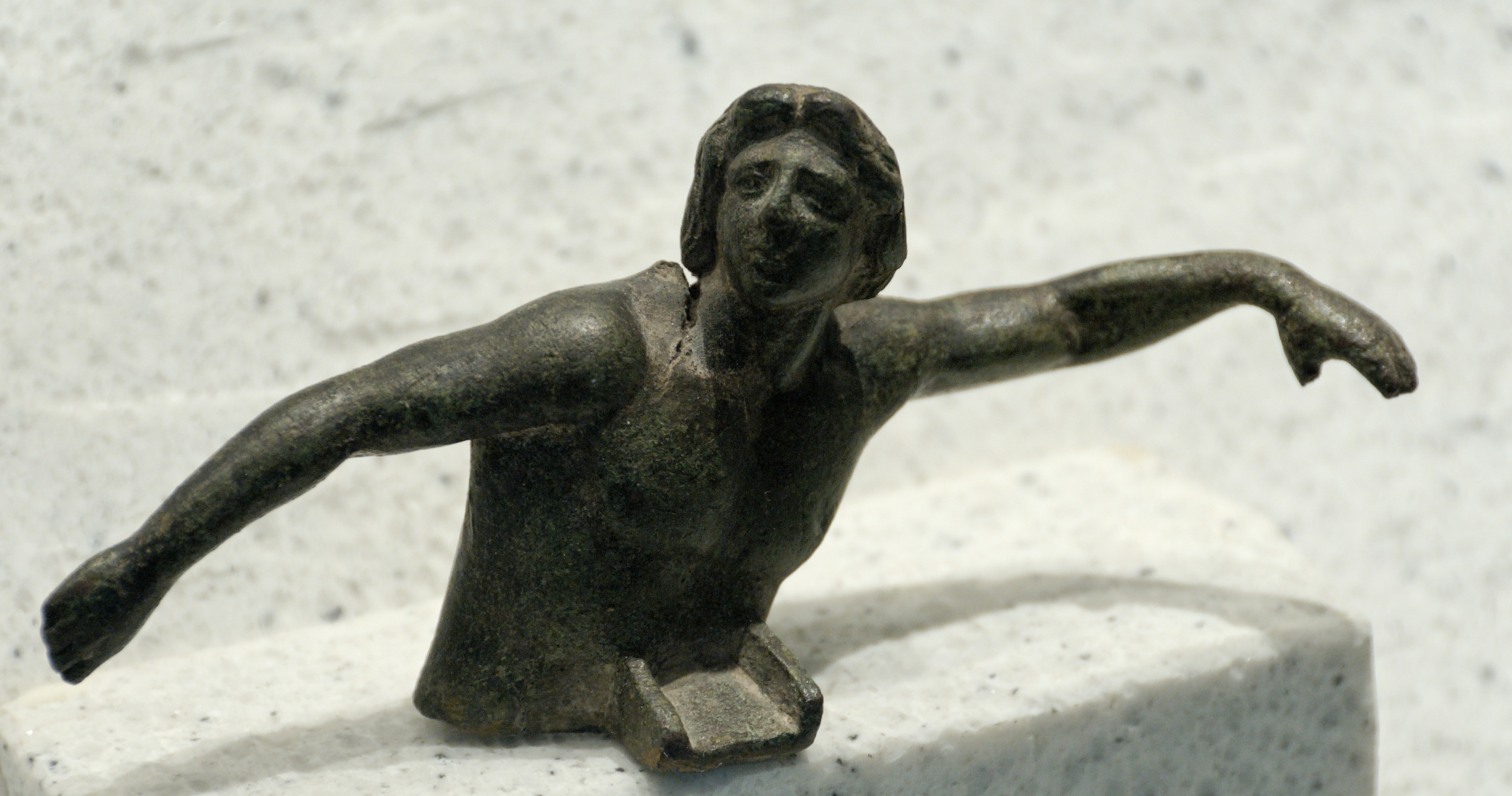 Swimmer, personification of the Orontes River.